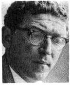 Avigdor Arikha